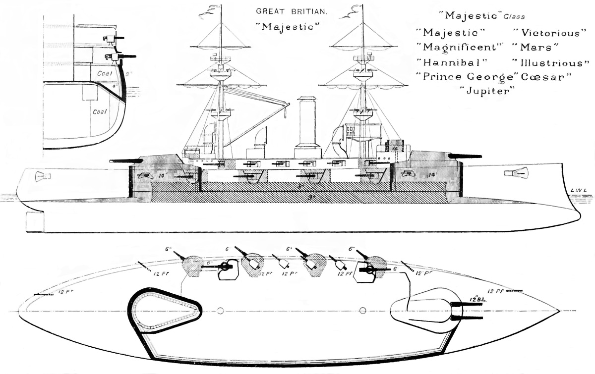 Right elevation and decks depicting British Majestic class battleship. Numbers on top diagram show armour thickness (shaded areas) in inches. Numbers on bottom diagram show size of guns in inches or shell weight.